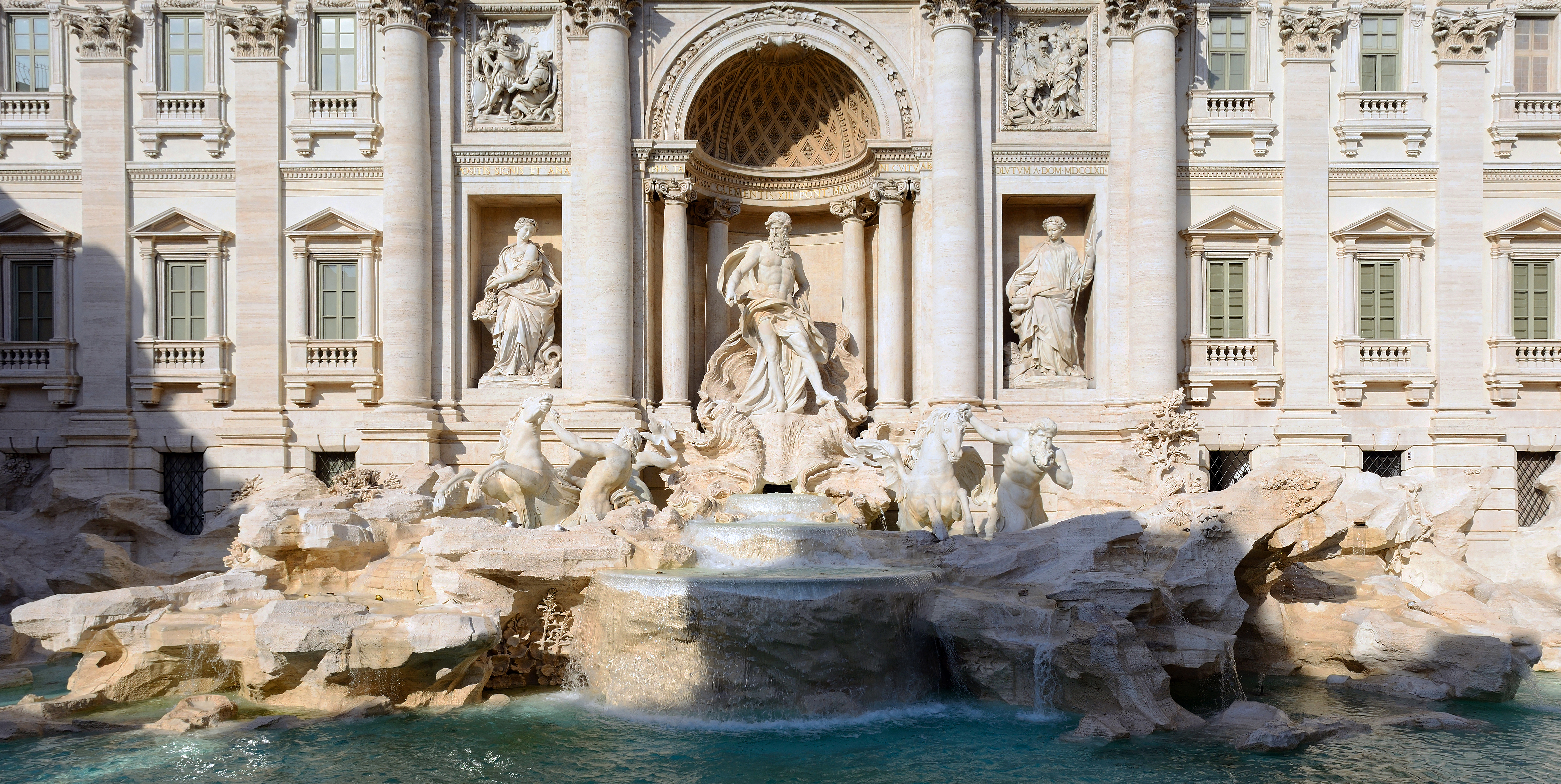 Trevi fountain 2015